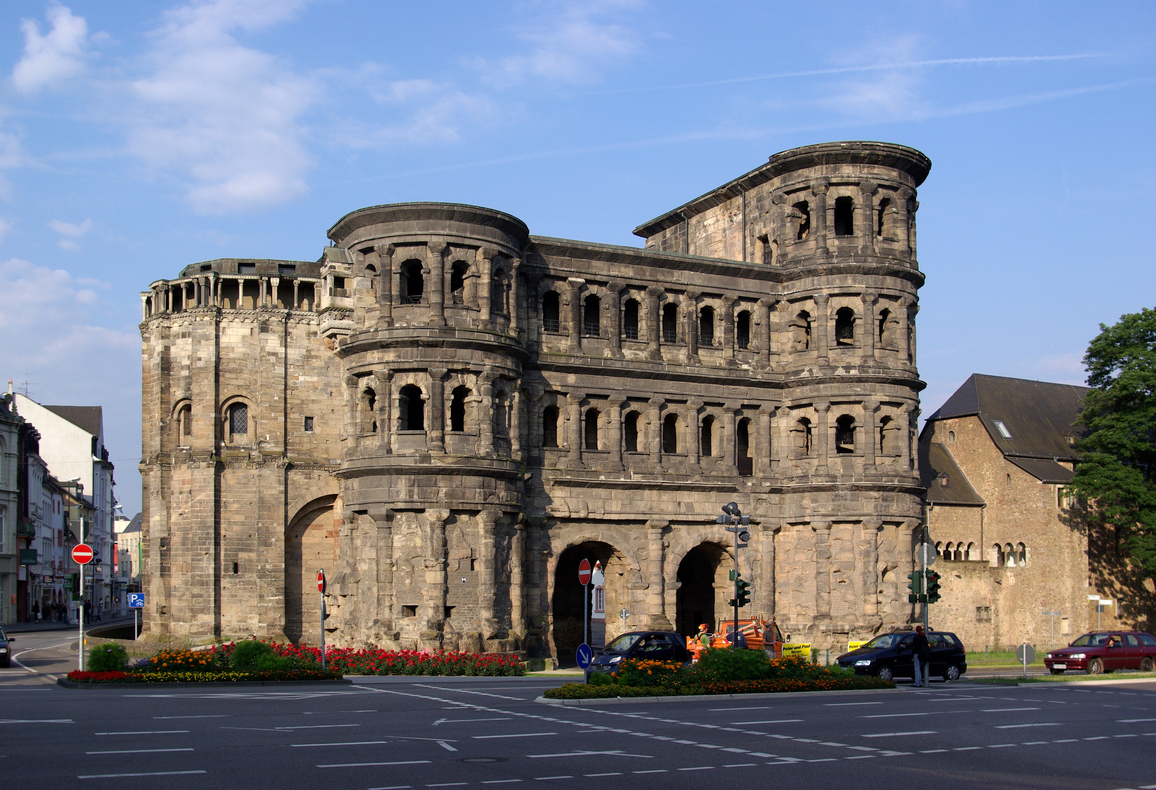 Porta Nigra (Black Gate) in Trier, Germany, best preserved Roman building north of the Alps, and World Heritage Site of UNESCO